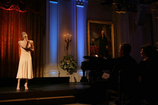 President George W. Bush and Laura Bush listen to country music artist LeAnn Rimes perform in the East Room of the White House during a dinner honoring The Dance Theatre of Harlem Monday, February 6, 2006.